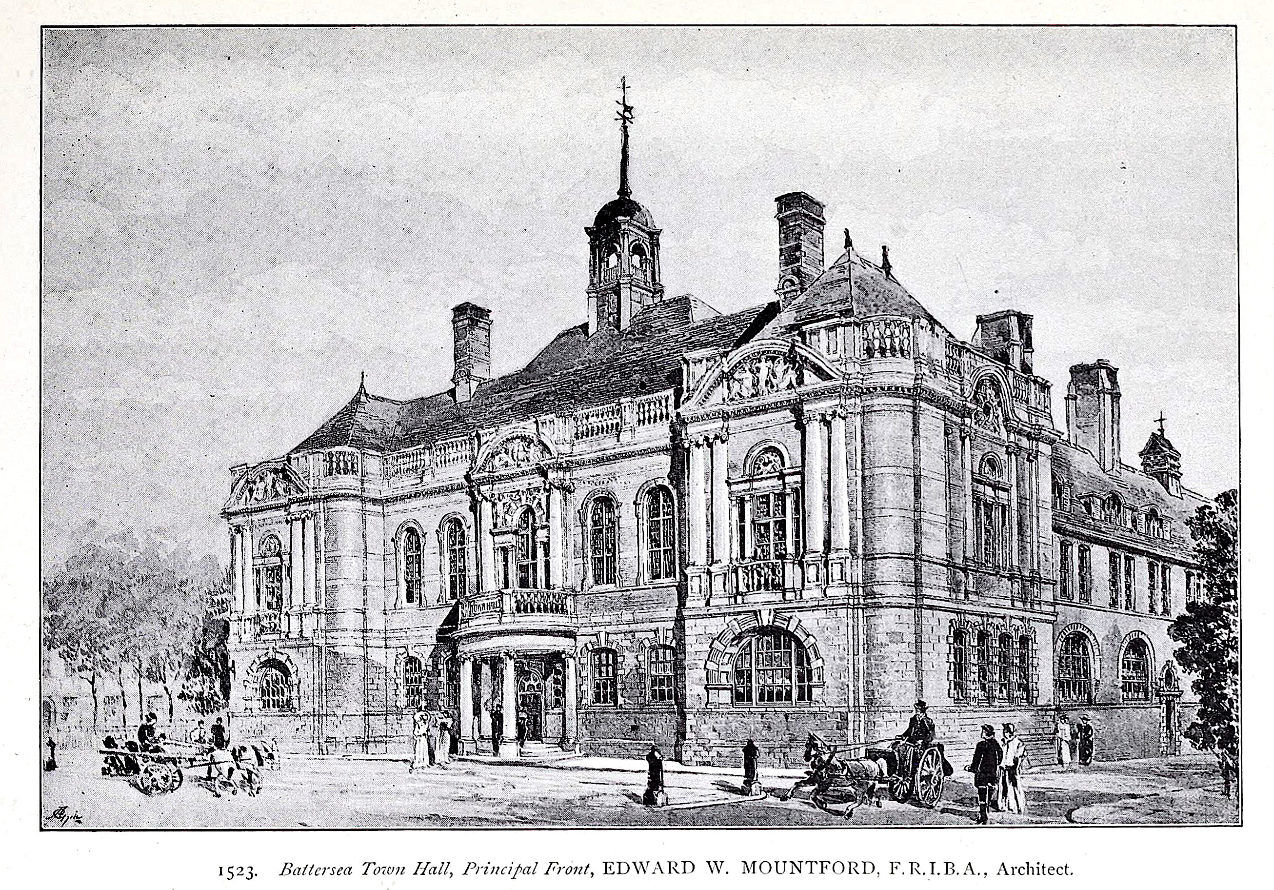 Perspective drawing.